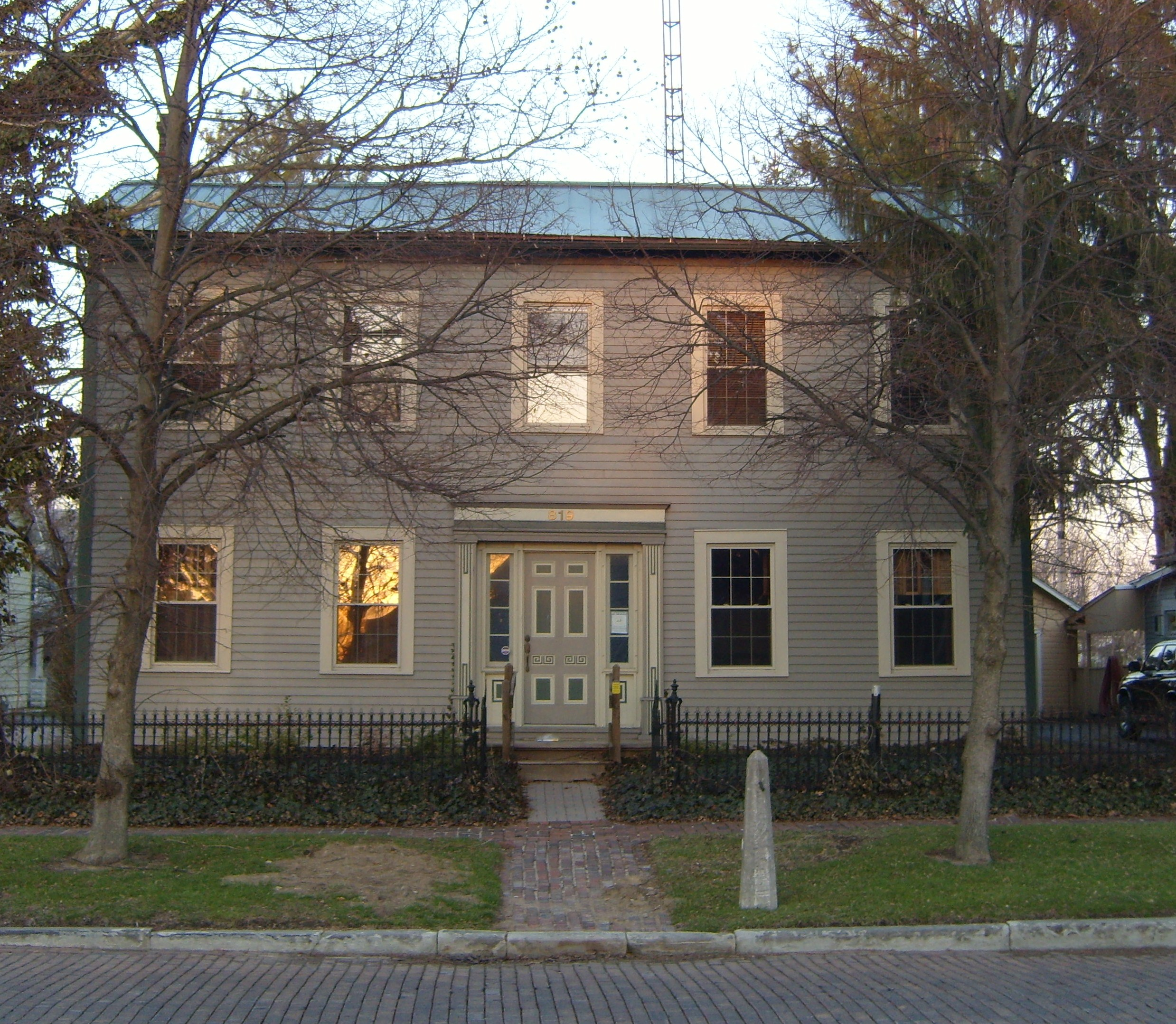 Front of the First Hancock County Courthouse, located at 819 Park Street in Findlay, Ohio, United States. Built in 1833, the former courthouse is listed on the National Register of Historic Places.